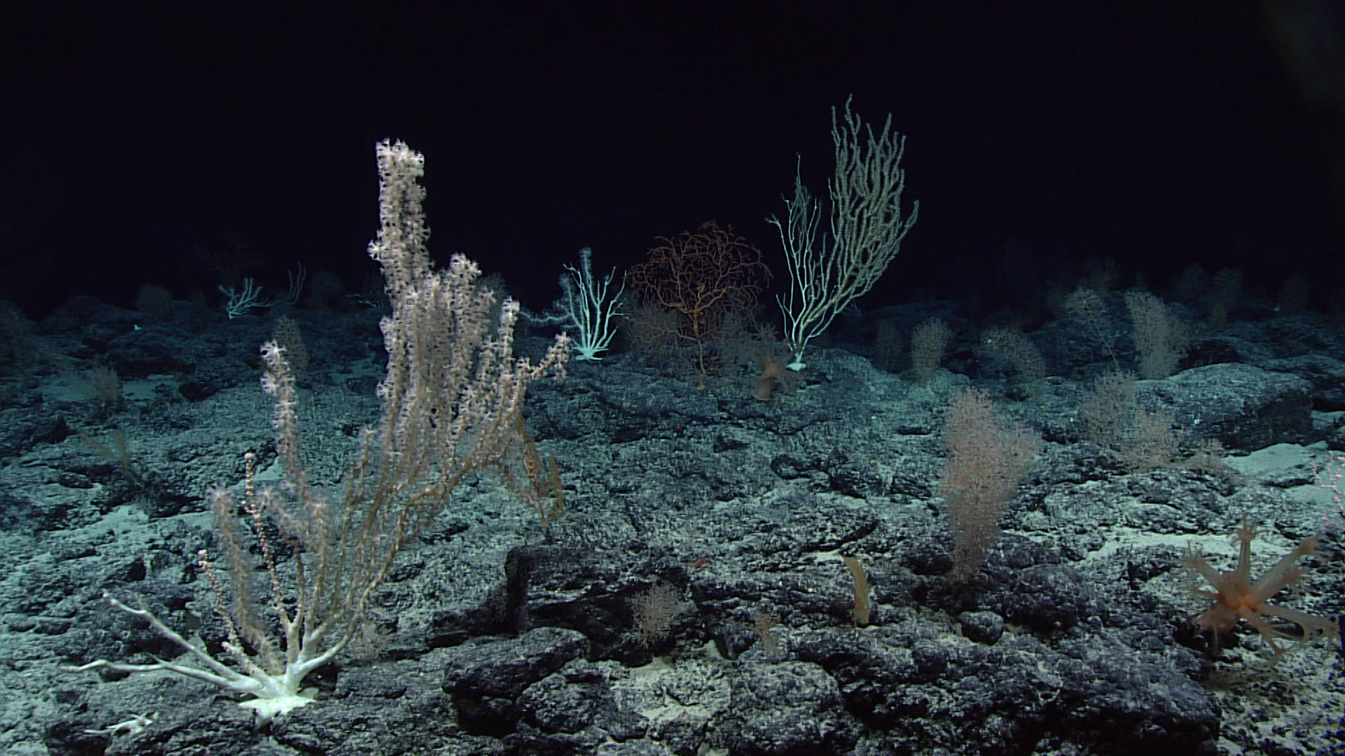 Dive 8 revealed another high density deep sea coral community at Wagner Seamount.